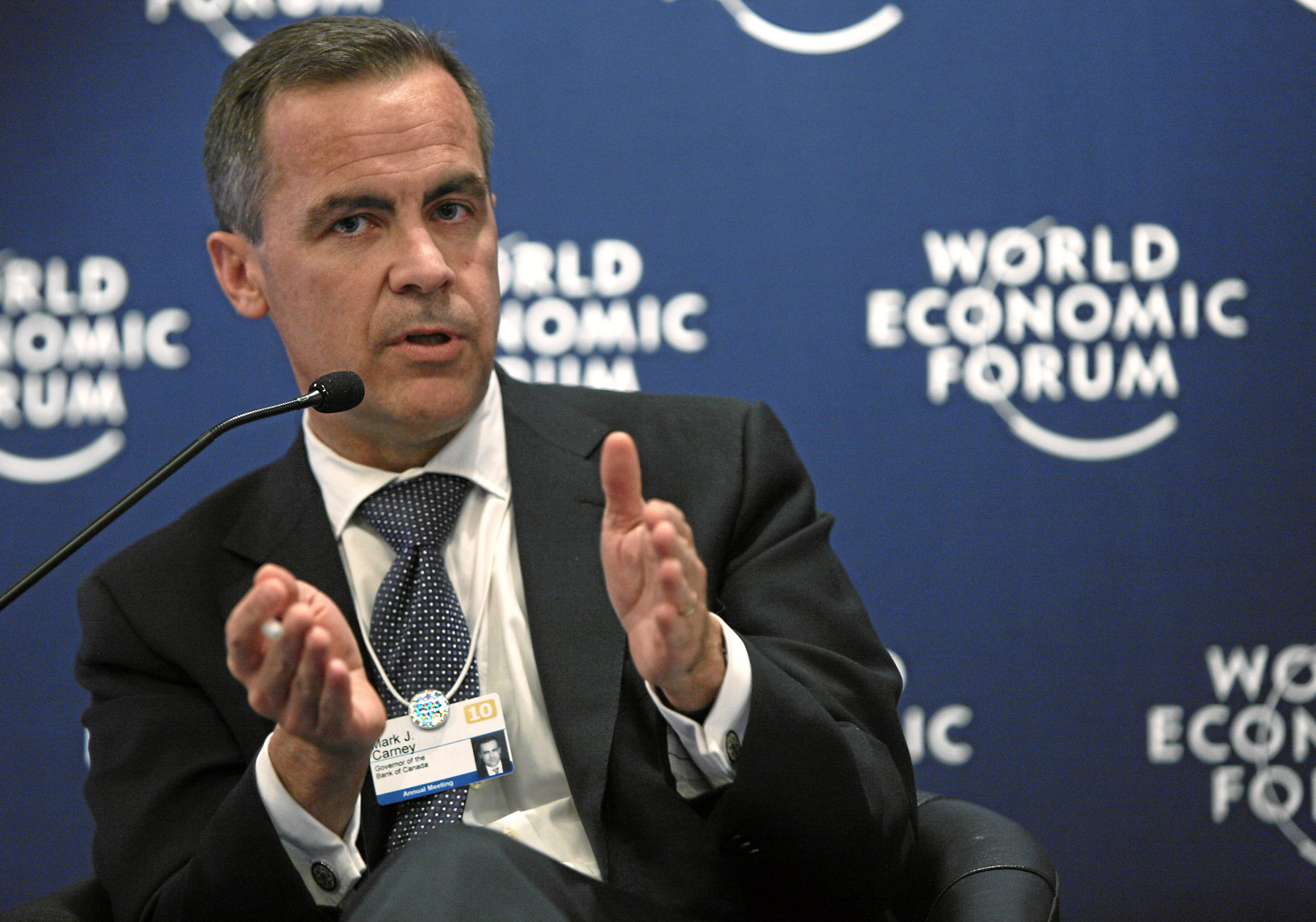 Mark Carney, Governor of the Bank of Canada. World Economic Forum, Davos, Switzerland. January 2010.